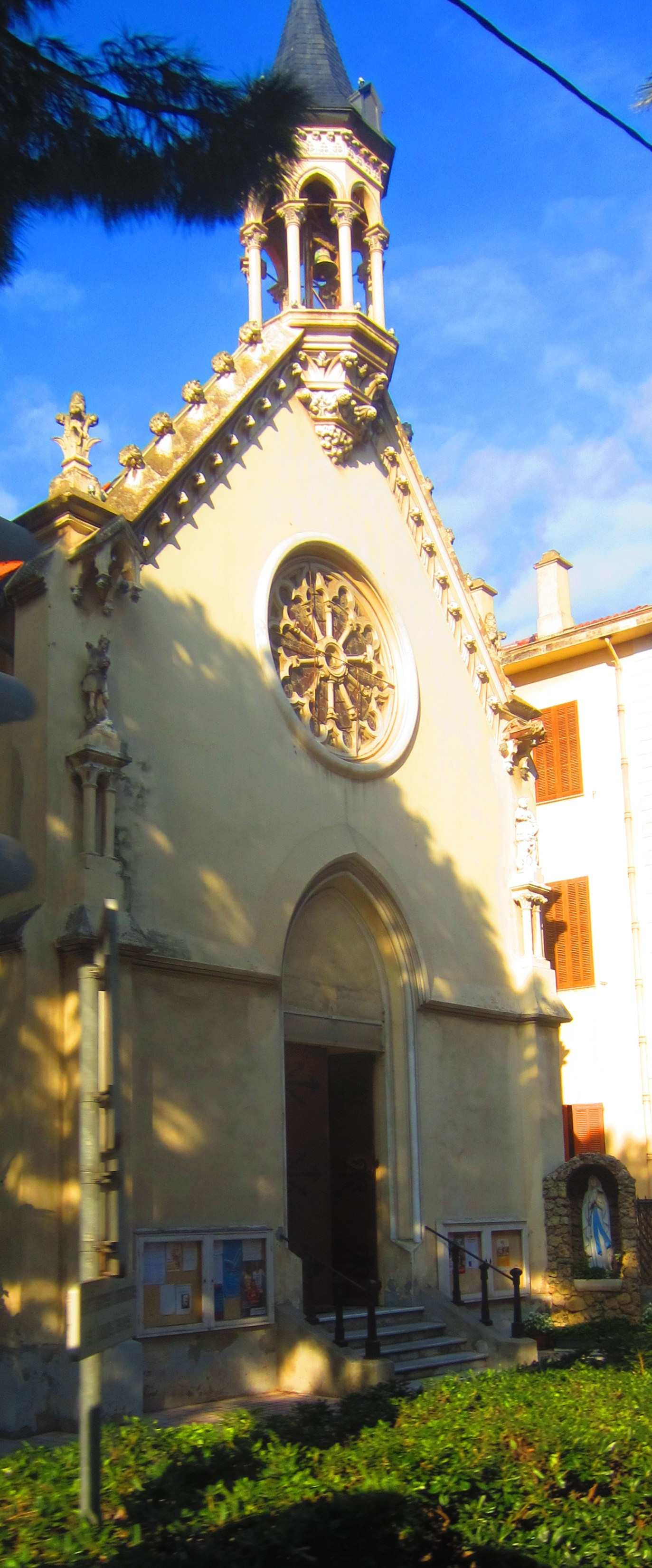 Description eglise st pierre Golfe juan Date28 December 2011Sourcemon appareil photoAuthorAimelaimePermission(Reusing this file) eglise st pierre Golfe juan